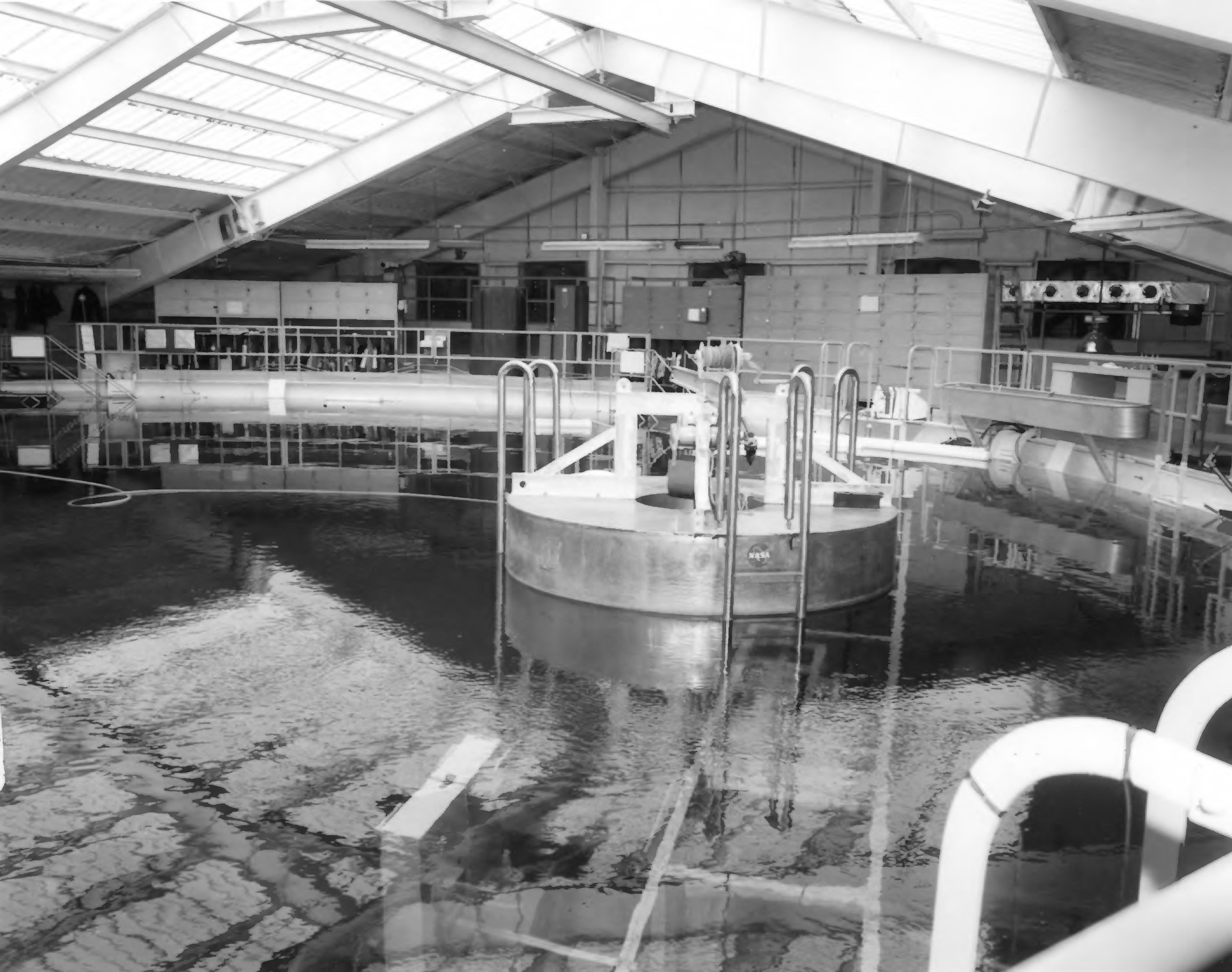 Looking across the top of the at